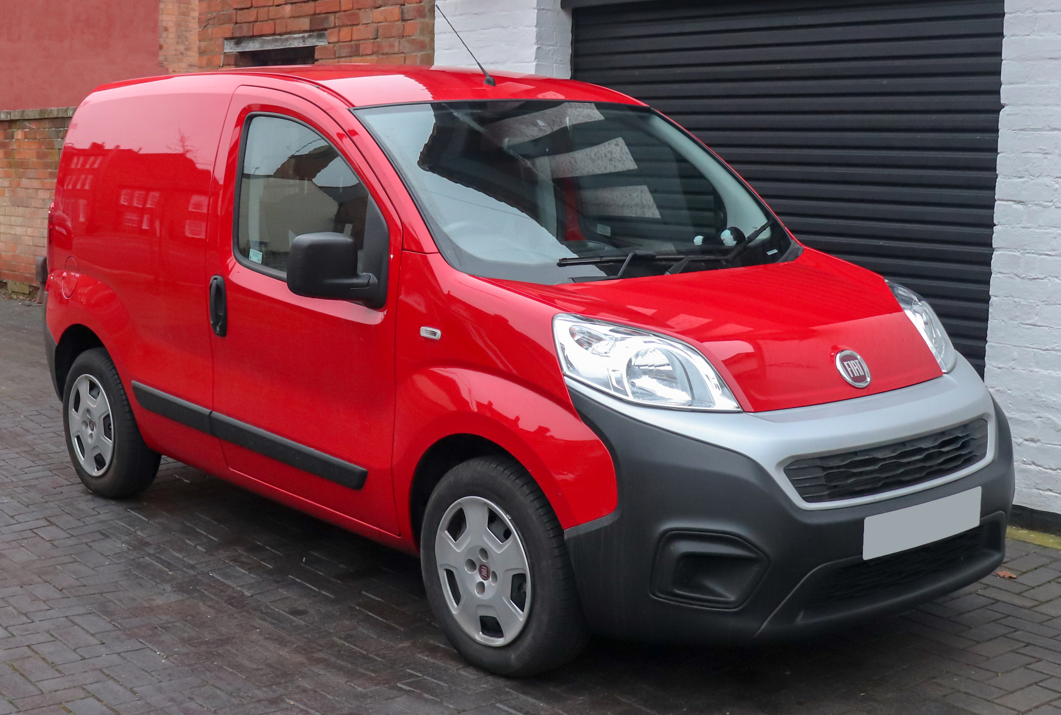 2018 Fiat Fiorino 16V SX Multijet 1.2 Front Taken in Warwick